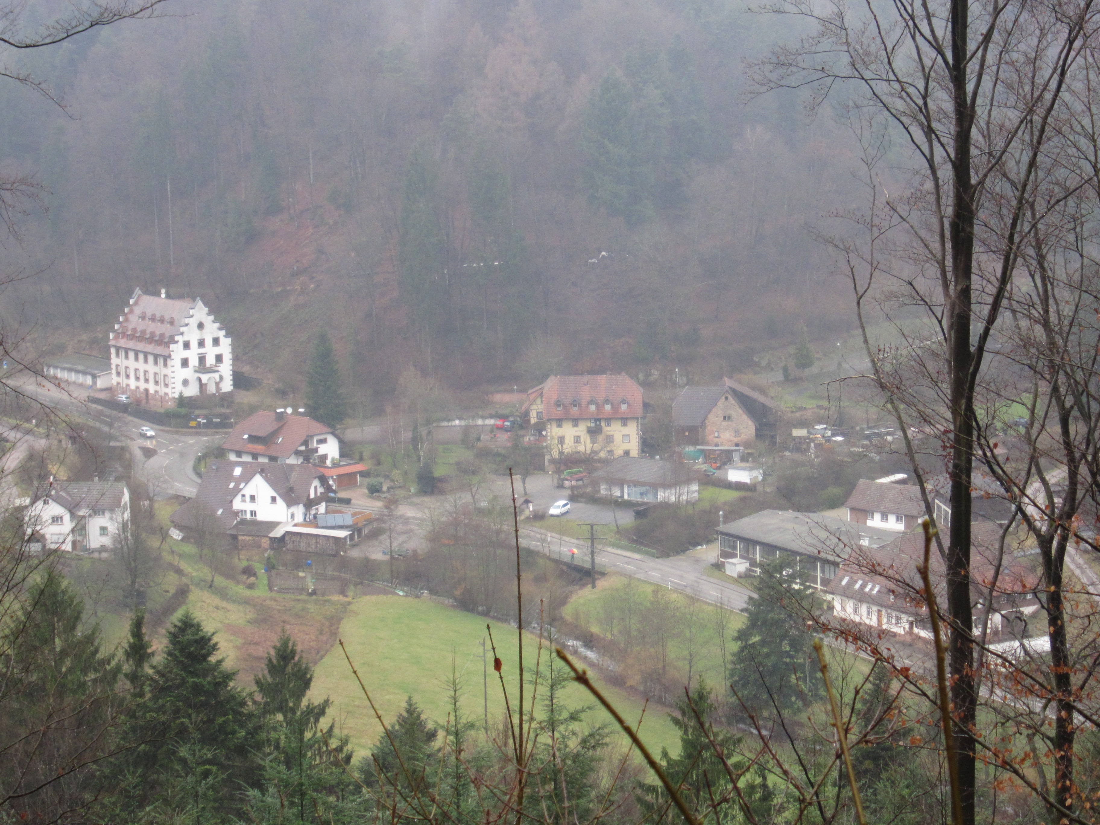 Sägplatz (Freiamt): view from Castle Keppenbach